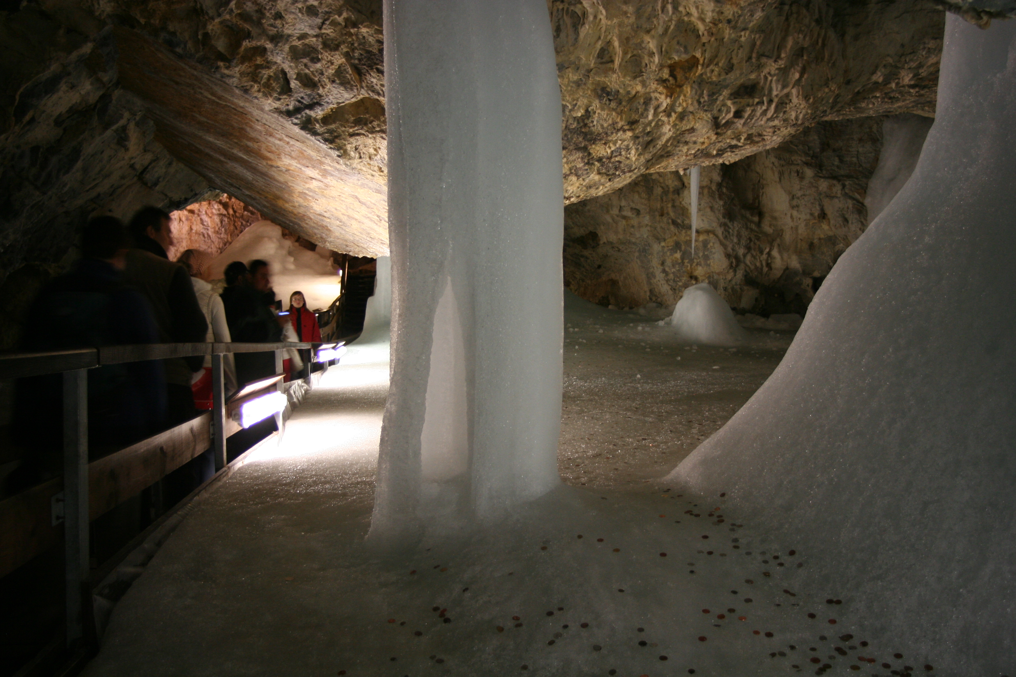 Demänová Ice Cave (Demänovská ľadová jaskyňa), Slovakia. Taking this photo was made possible through the financial support of Wikimedia Polska.